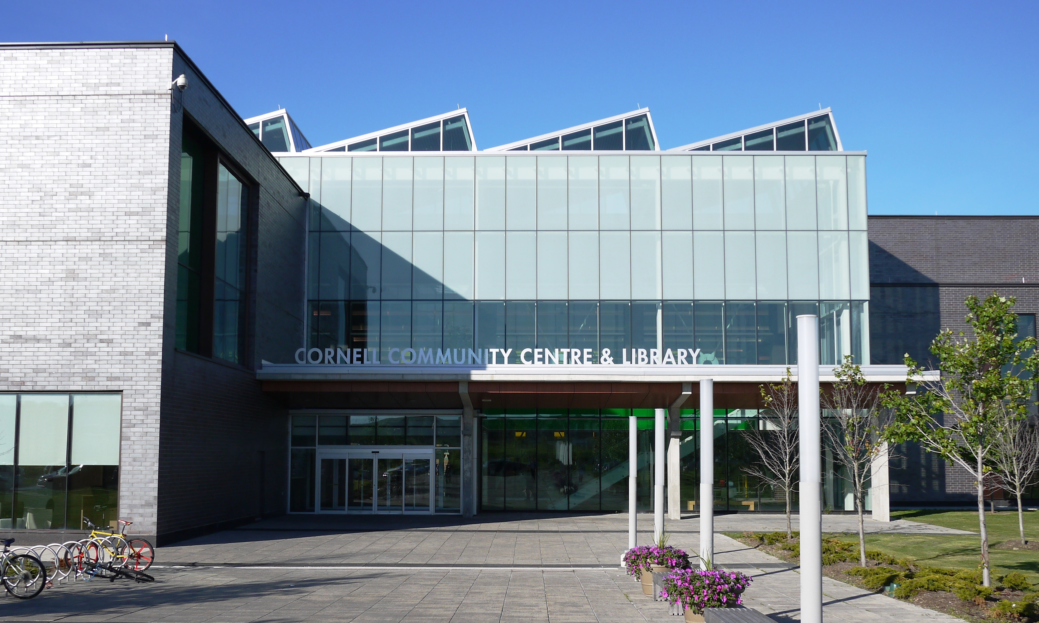 Main Entrance of the Cornell Community Centre & Library in Markham, Ontario